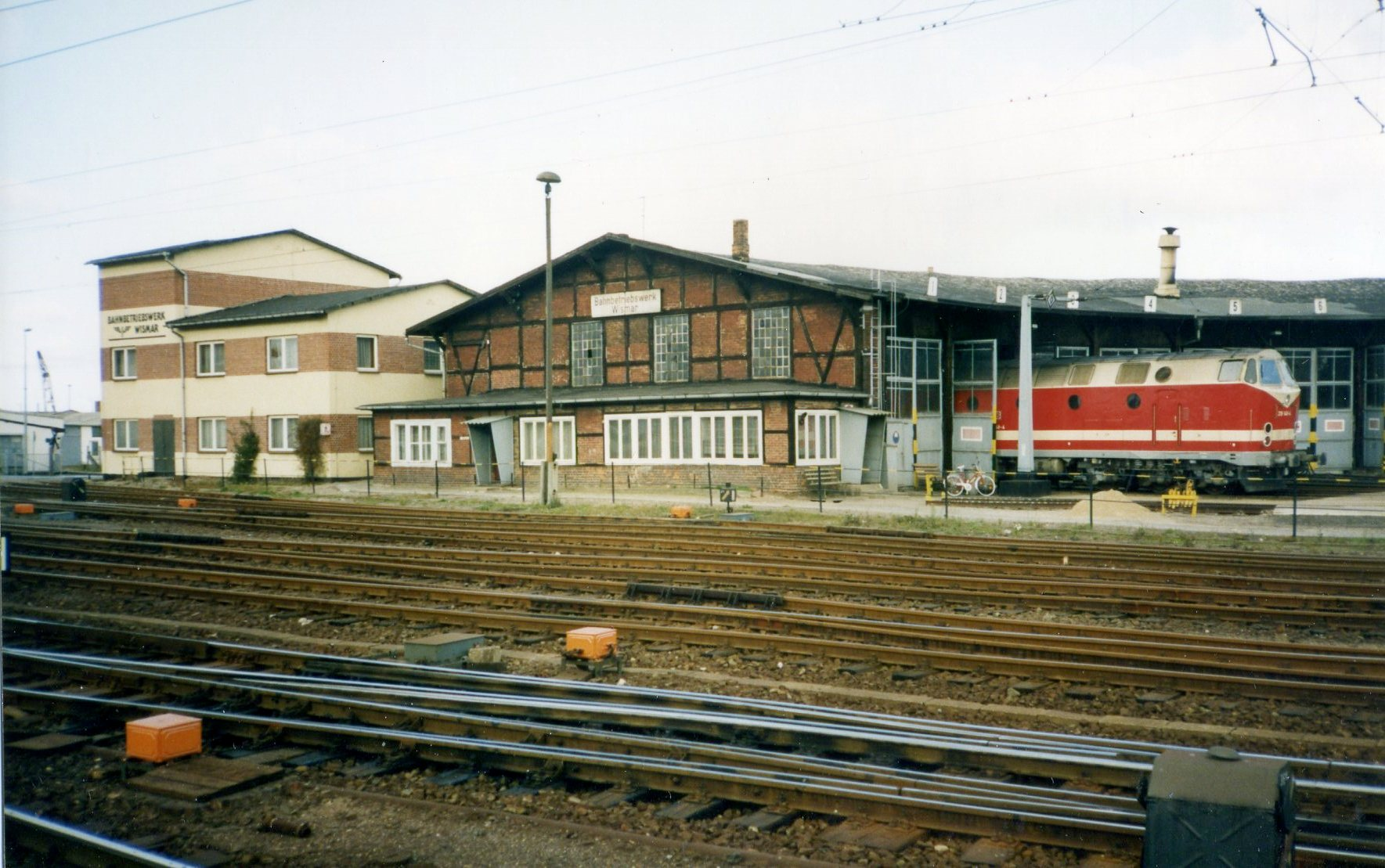 Bahnbetriebswerk Wismar. Baureihe 119 U-Boot in residence.